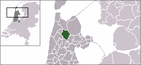 Locator map of Dutch municipalities in Noord-Holland (LocatieNiedorp.png)